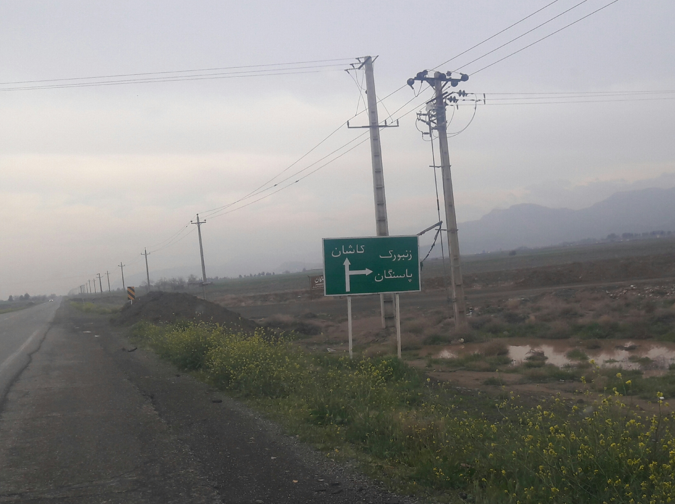 dam in Iran